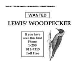 Poster placed in Government Offices in British Columbia